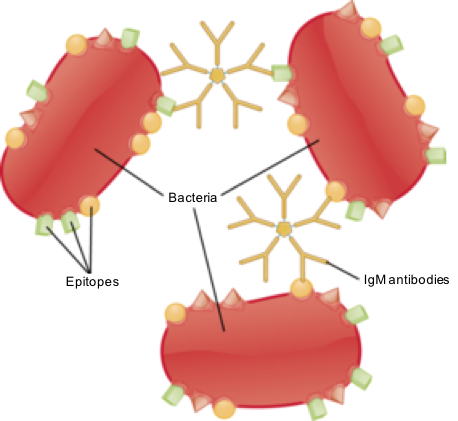 Immunoglobulin (IgM) antibodies binding to adjacent antigen epitopes on the surface of bacterial cells resulting in cross-linking and lattice formation.